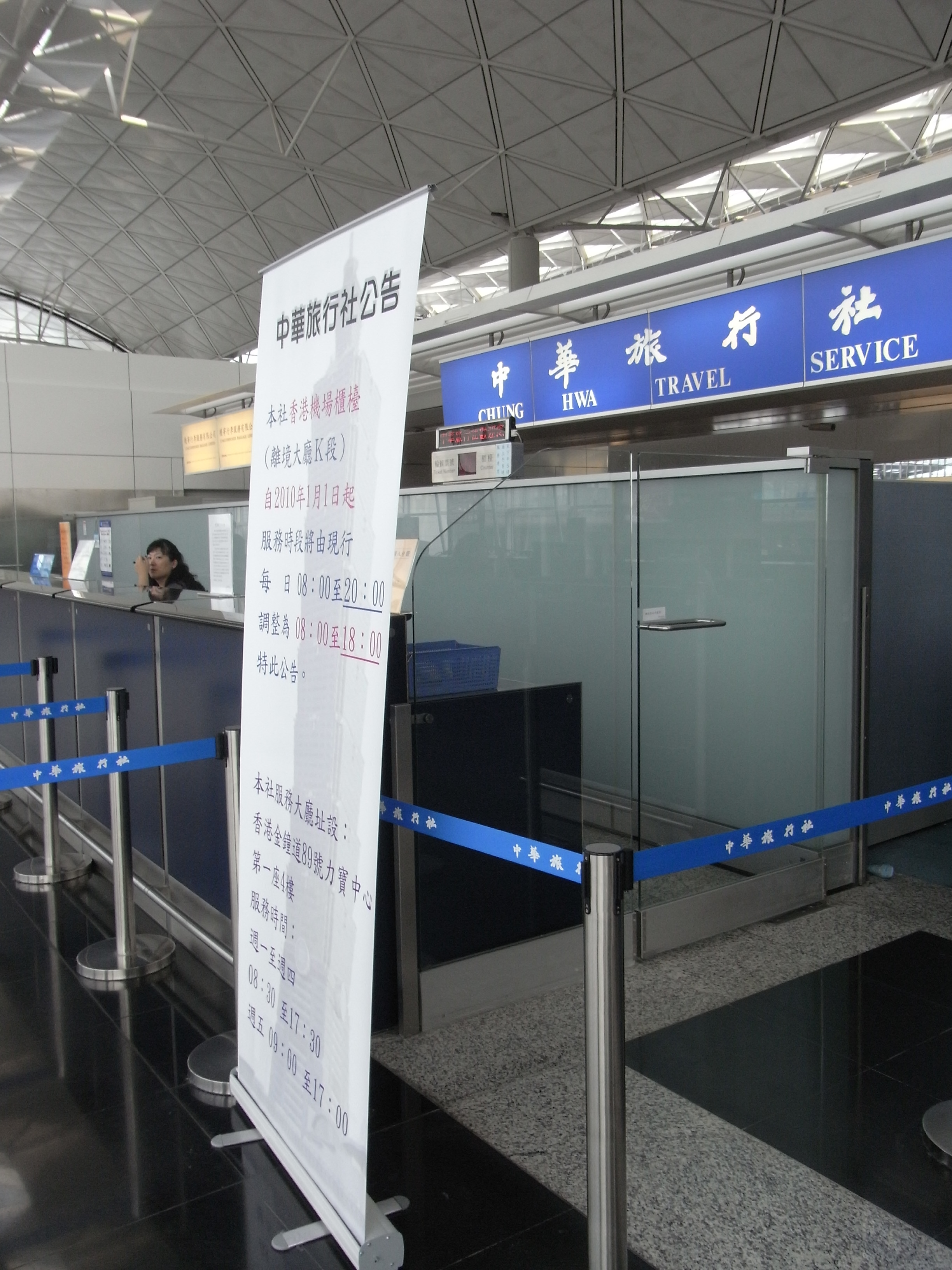 香港 台灣中華旅行社 & 易拉架